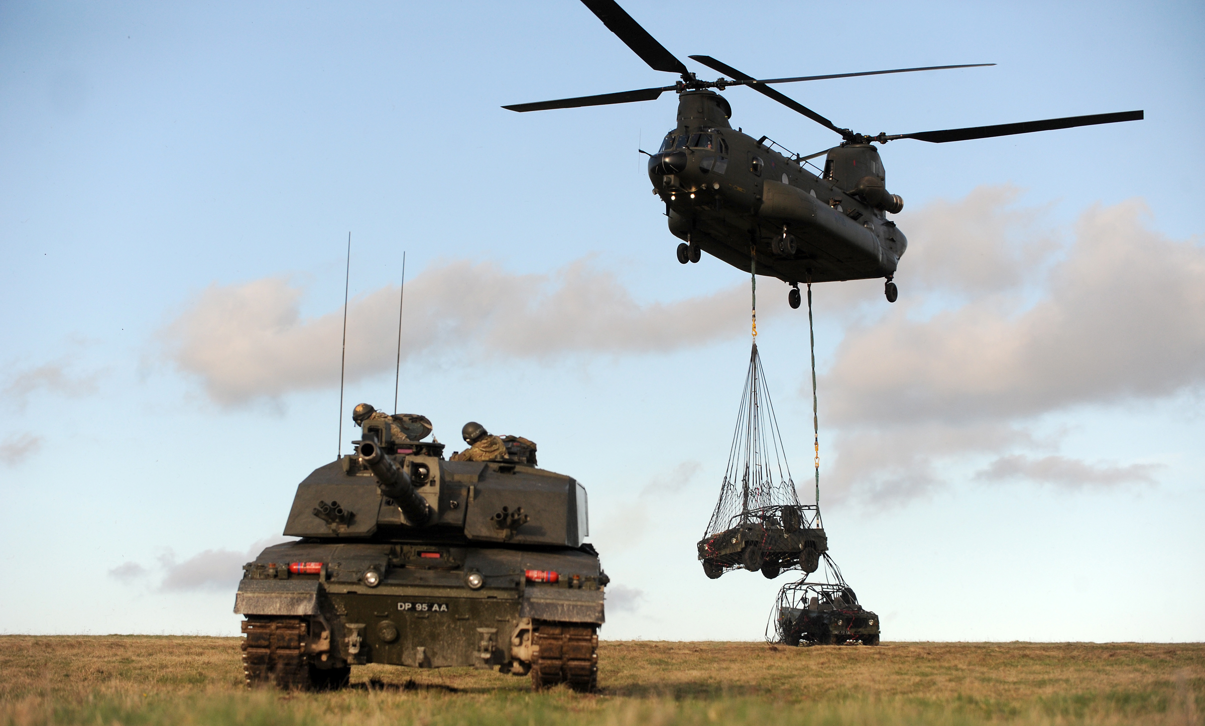 Pictured is a Challenger 2 MBT and Chinook Helicopter on the Salisbury Plain Training Area. Army Reservists from the Royal Wessex Yeomanry and regular soldiers from The Royal Tank Regiment and personnel from the RAF worked together to coordinate the delivery of their new Wolf Scout Land Rovers by air with the vehicles under-slung from the giant Chinook aircraft.